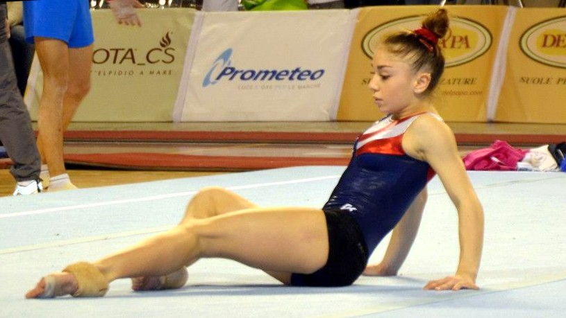 Enus Mariani. Ancona, 9th february 2013